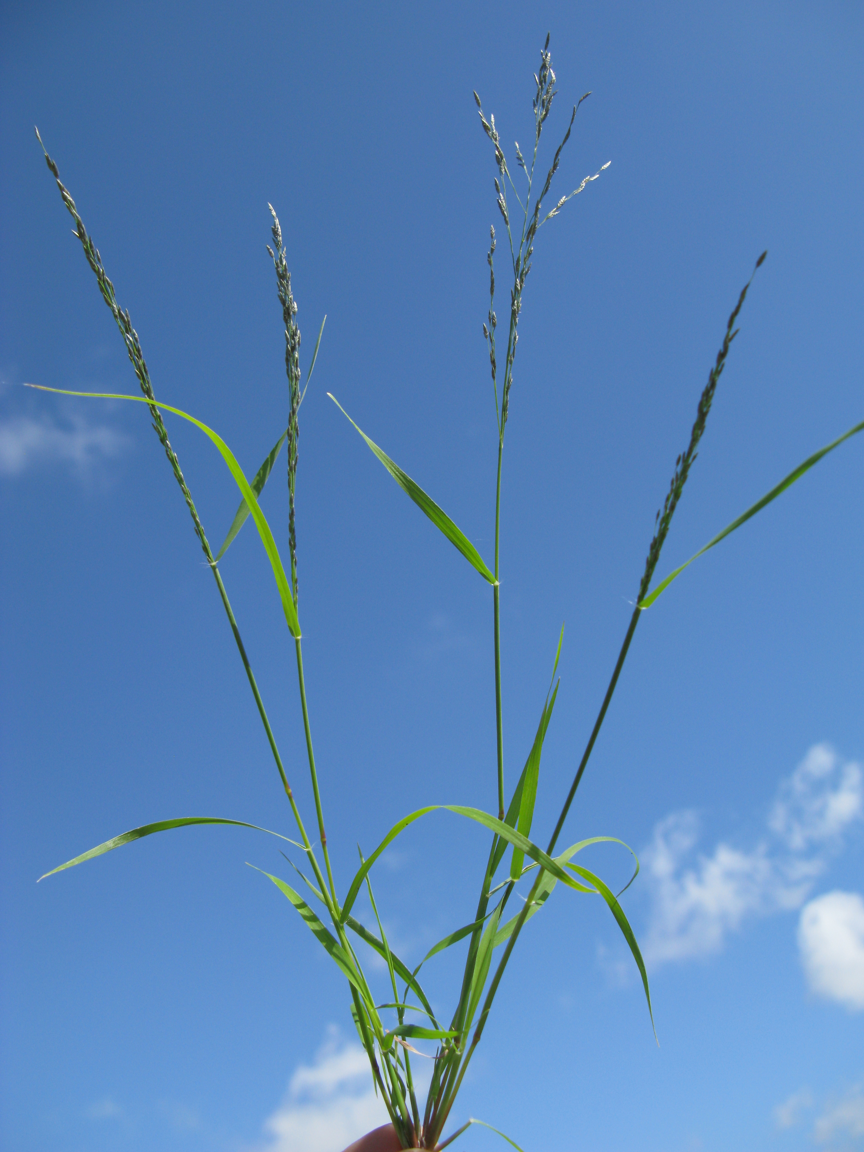 Introduced warm-season tufted annual to 60cm tall. It is a native of Europe and a weed of disturbed areas of agriculture and habitation (e.g. crops, sown pastures, gardens, roadsides and waste areas).